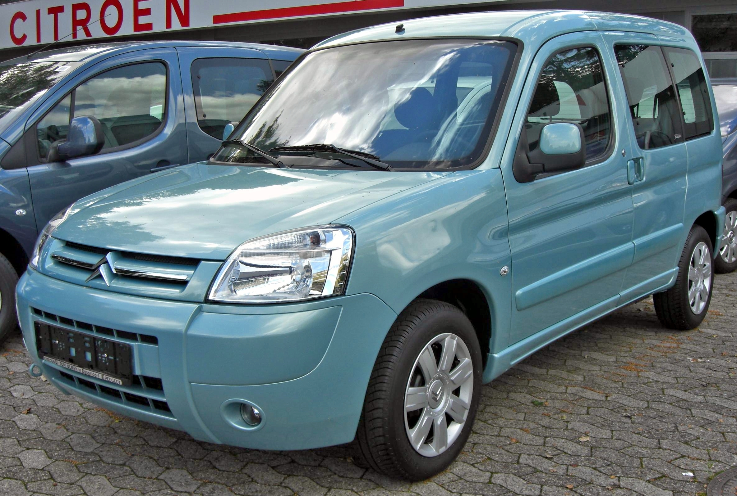 Citroën Berlingo I